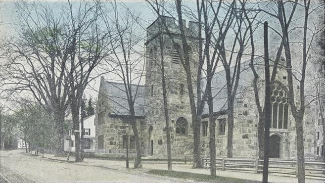 Phillips Church, Exeter, NH; from a 1911 postcard. Designed by Ralph Adams Cram, the cornerstone was laid in 1897. The church was acquired by Phillips Exeter Academy in 1922.